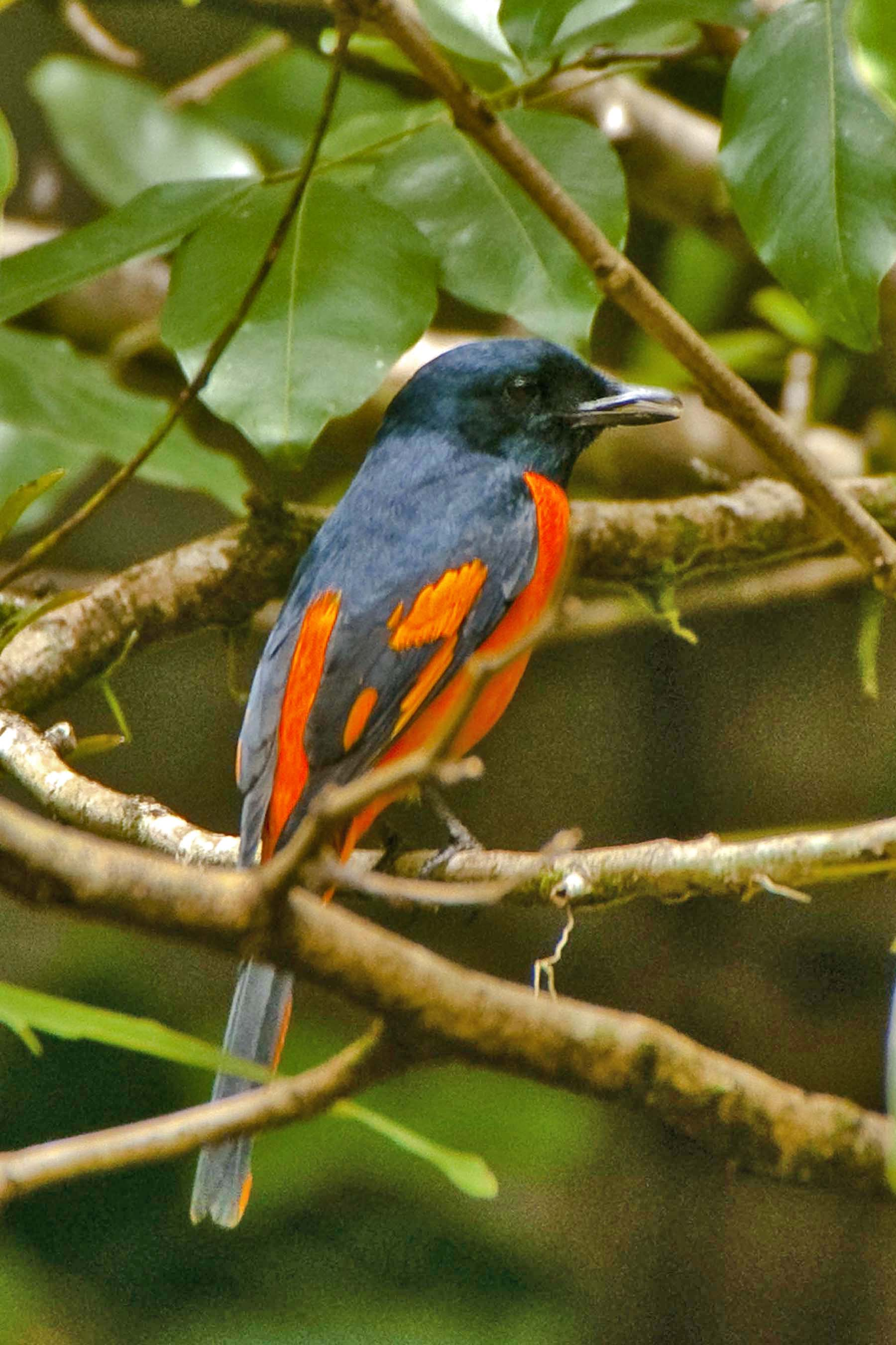 A male Scarlet Minivet in Sri Lanka.